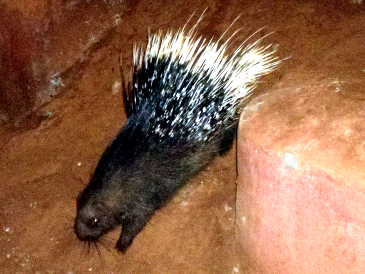 Hystrix indica (Indian Crested Porcupine) at Indira Gandhi Zoological park, Visakhapatnam